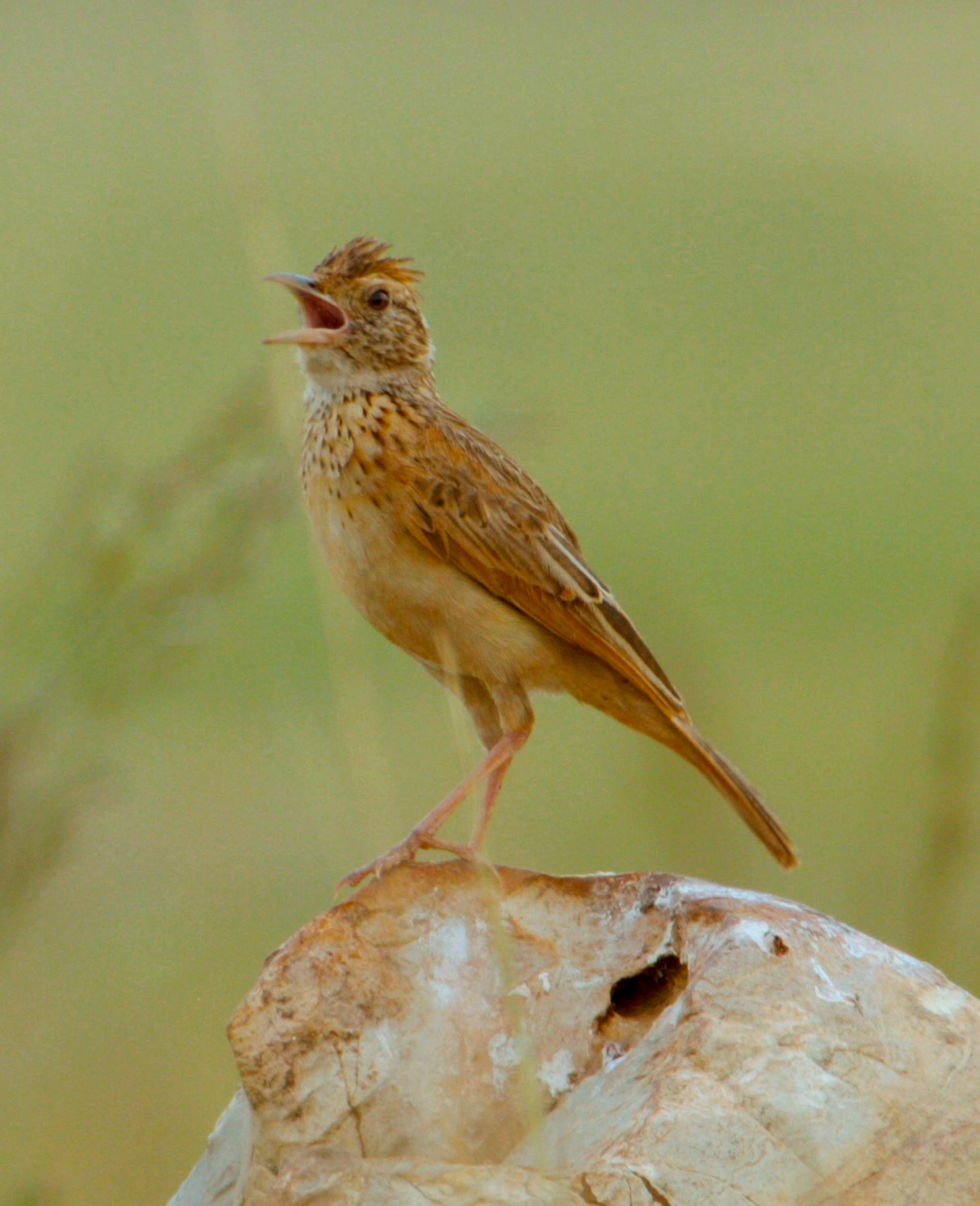 A Rufous-naped lark at the Rhino and Lion Nature Reserve, Gauteng, South Africa